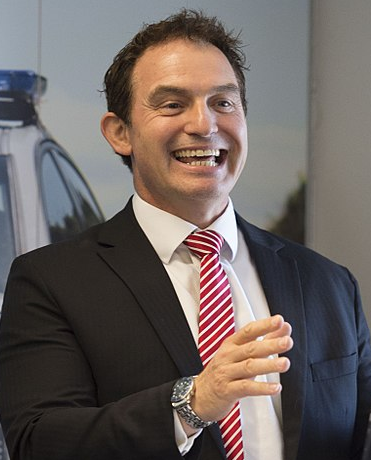 Cropped version of original photo featuring Nash speaking at Project YES, December 2017.